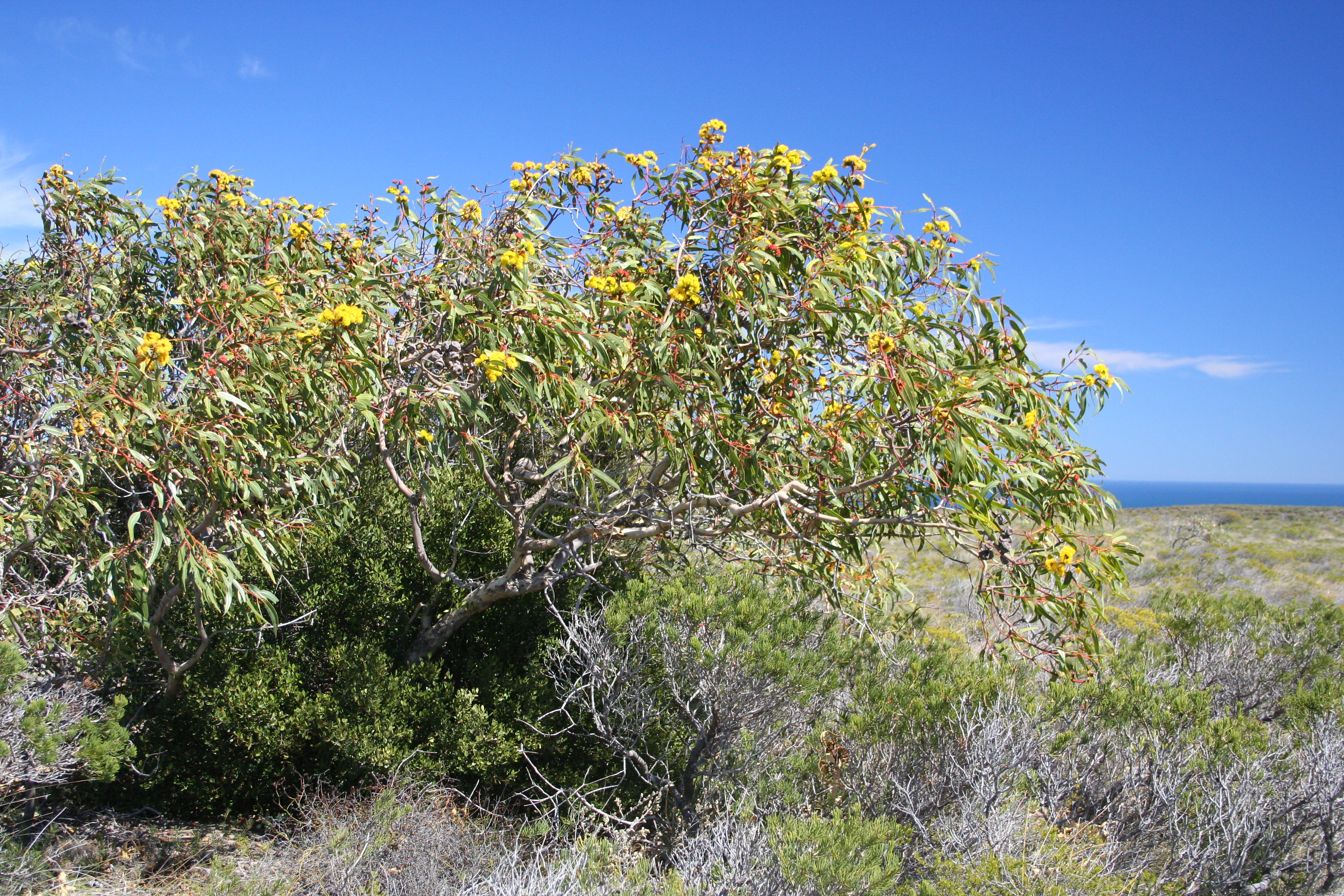 Eucalyptus erythrocalyx, somewhere up near Murchison River